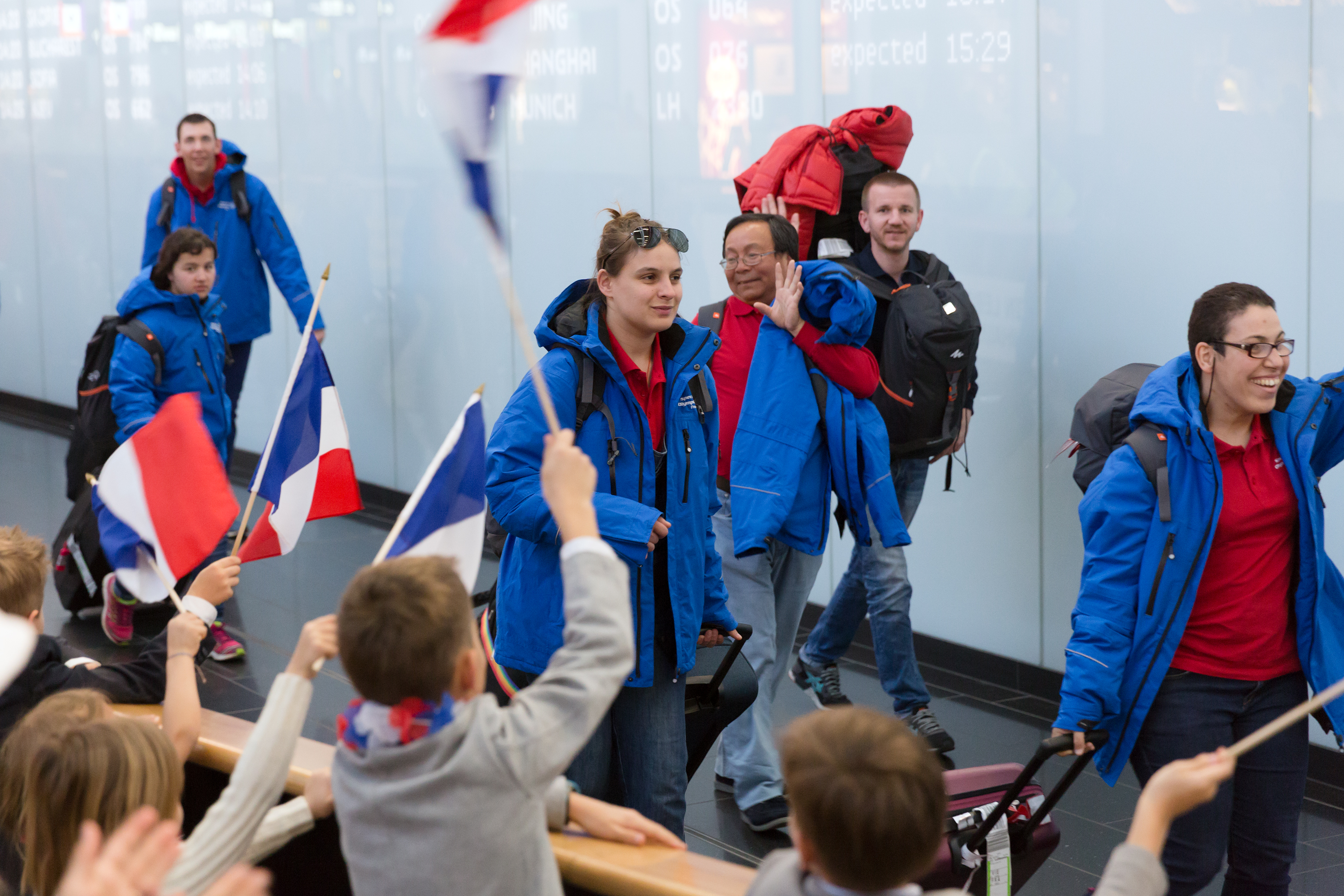 Arrival and greeting of the delegation from France for the 2017 Special Olympics World Winter Games at Vienna International Airport.